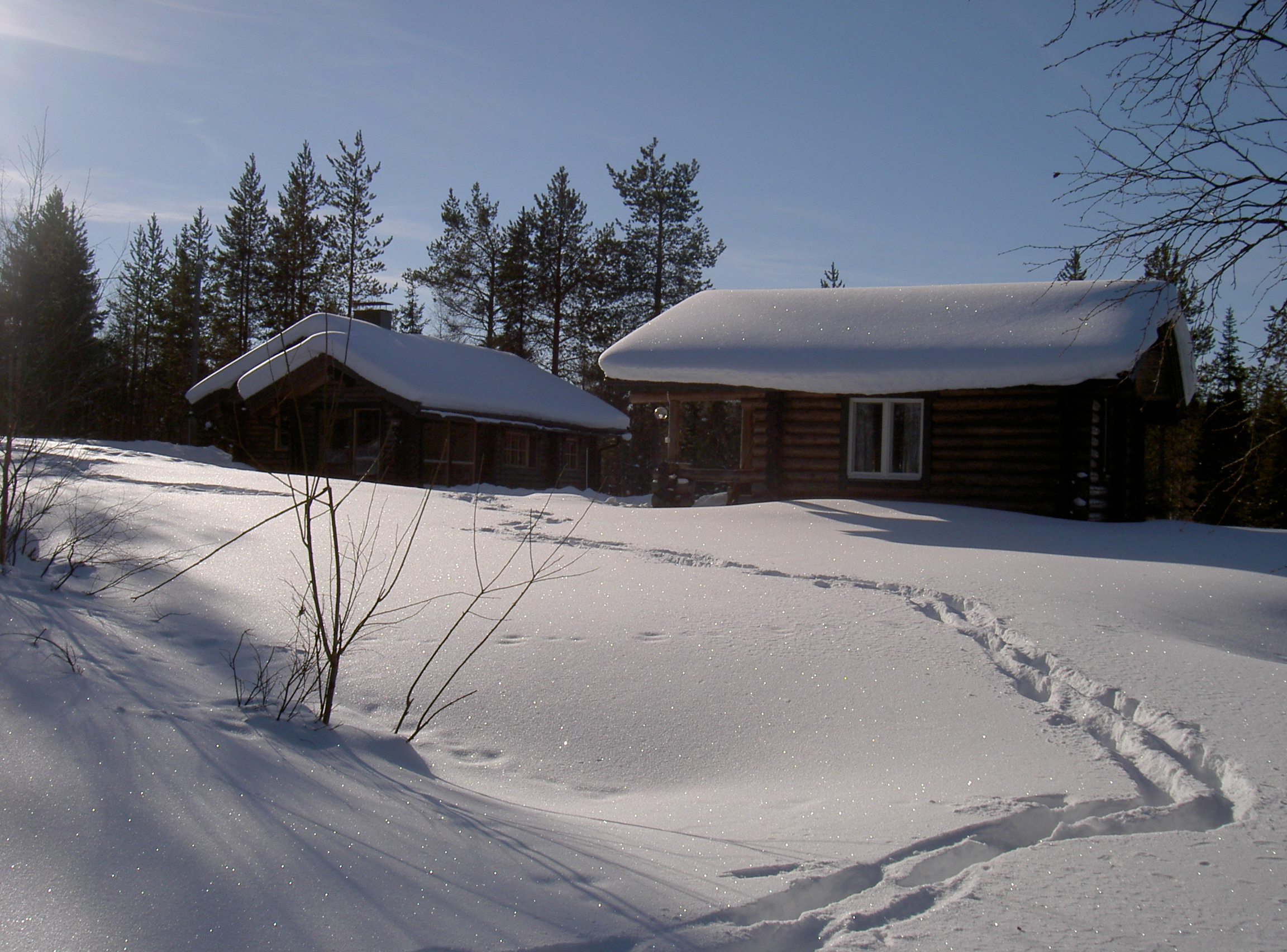 A mokki in the Ruka area of Finnland.